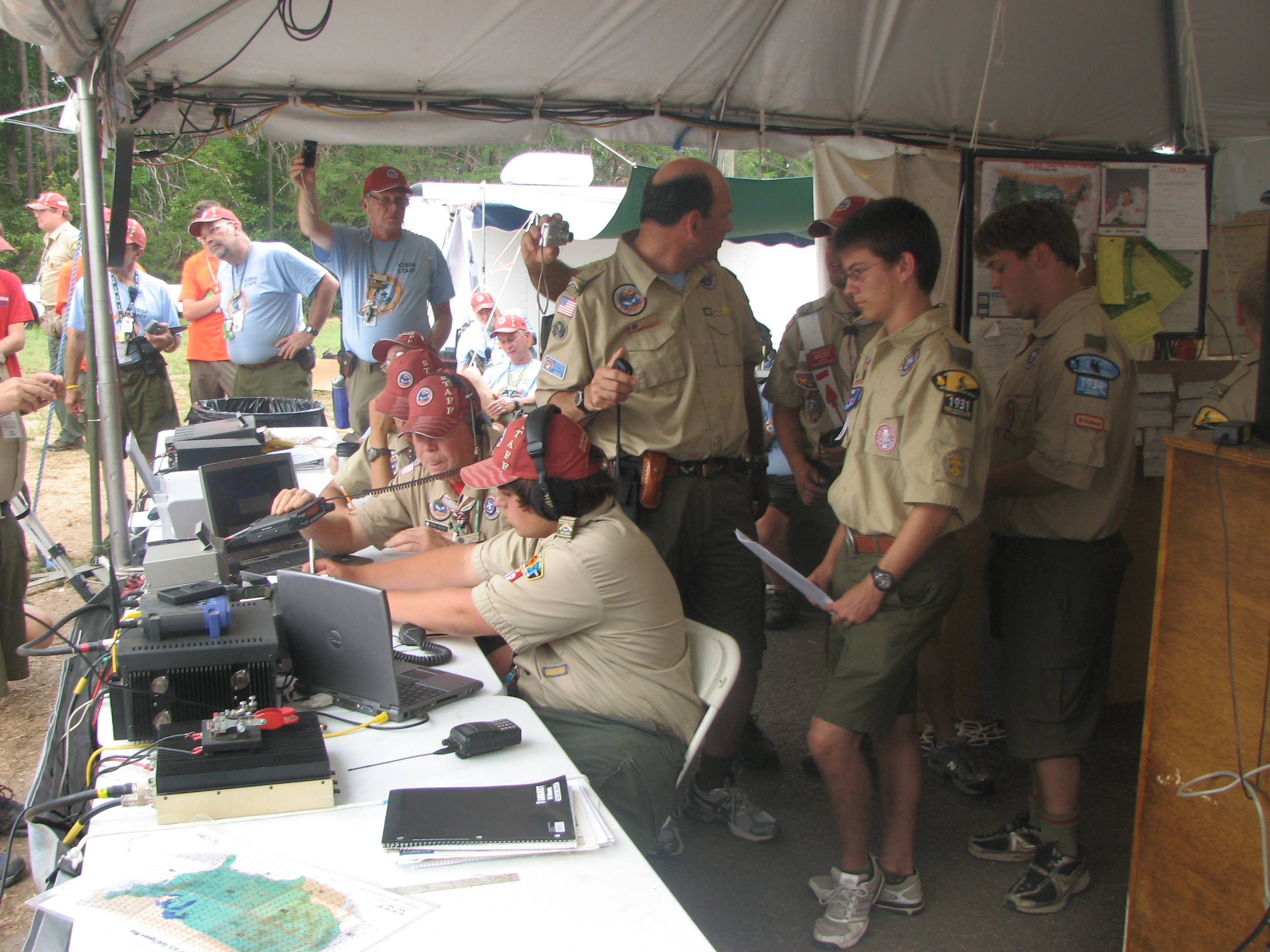 Scouts talking to an astronaut on the International Space Station at the 2010 National Scout Jamboree.